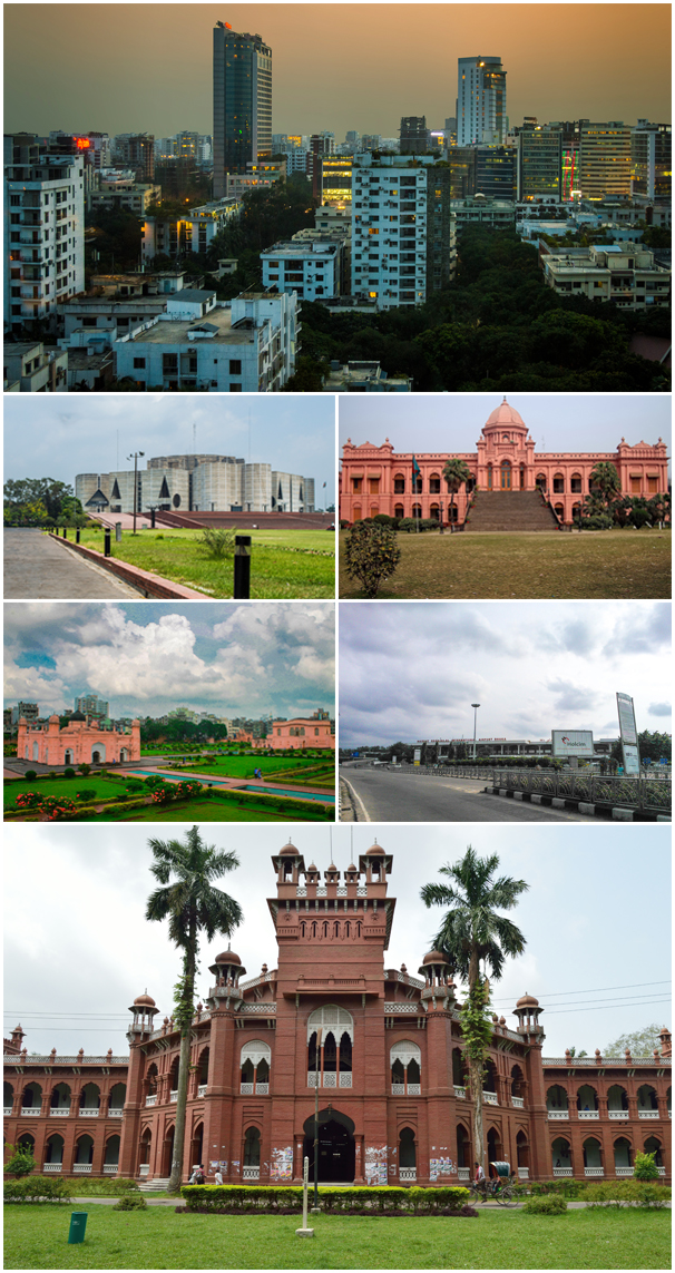 Photo montage of Dhaka, Bangladesh